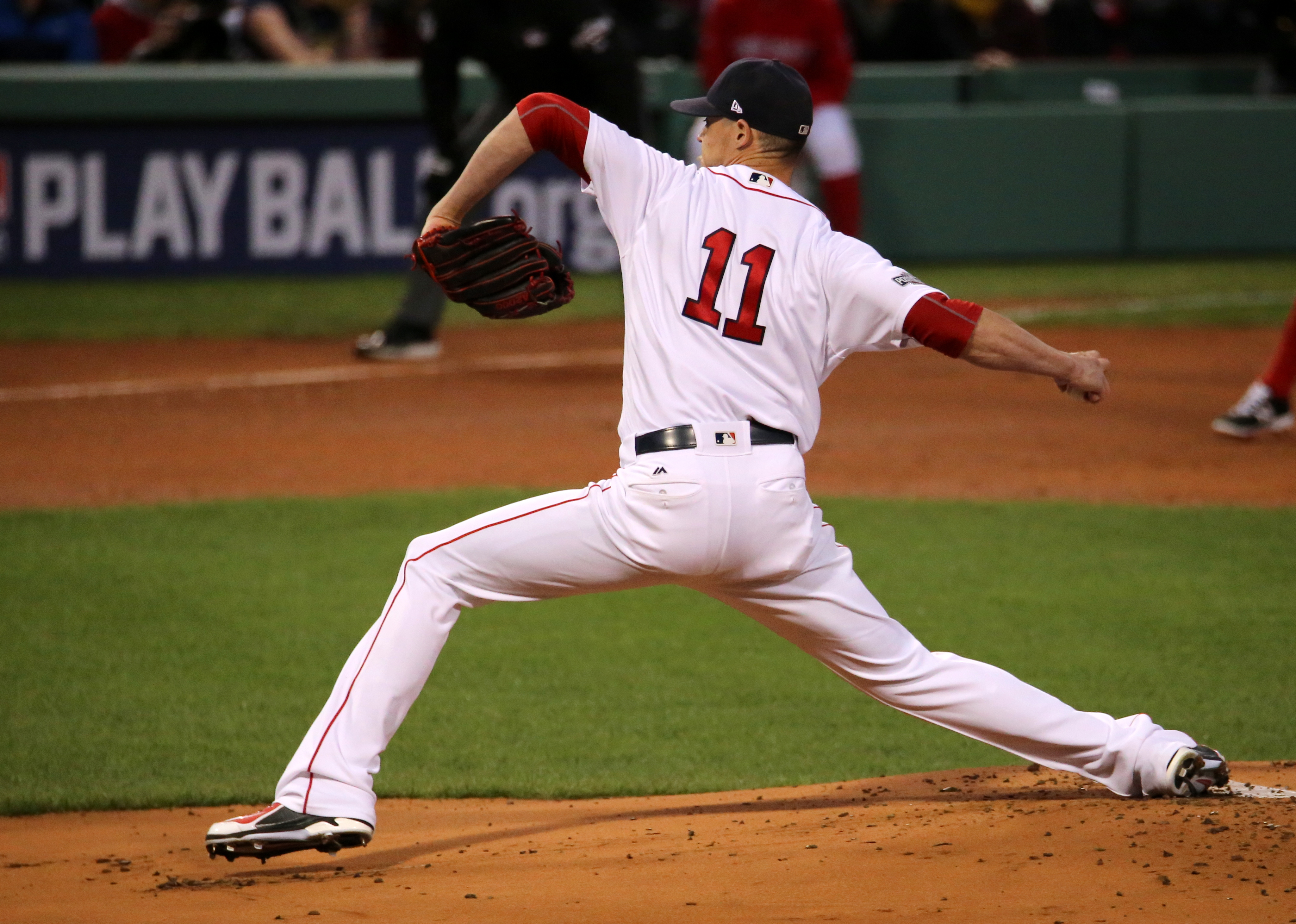 Red Sox starter Clay Buchholz delivers a pitch during ALDS Game 3.